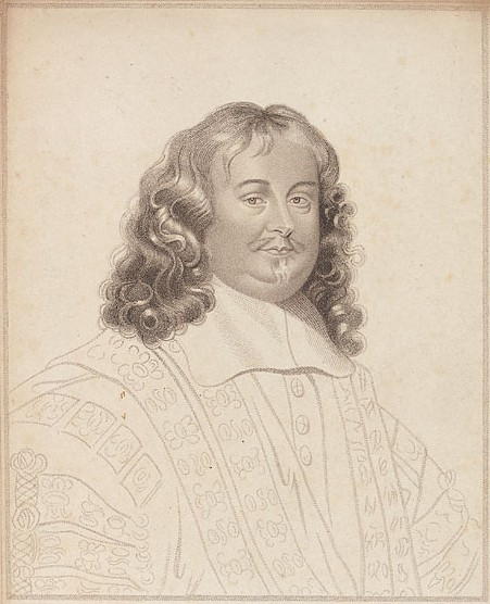 Edward Hyde, 1st Earl of Clarendon (1609–1674)